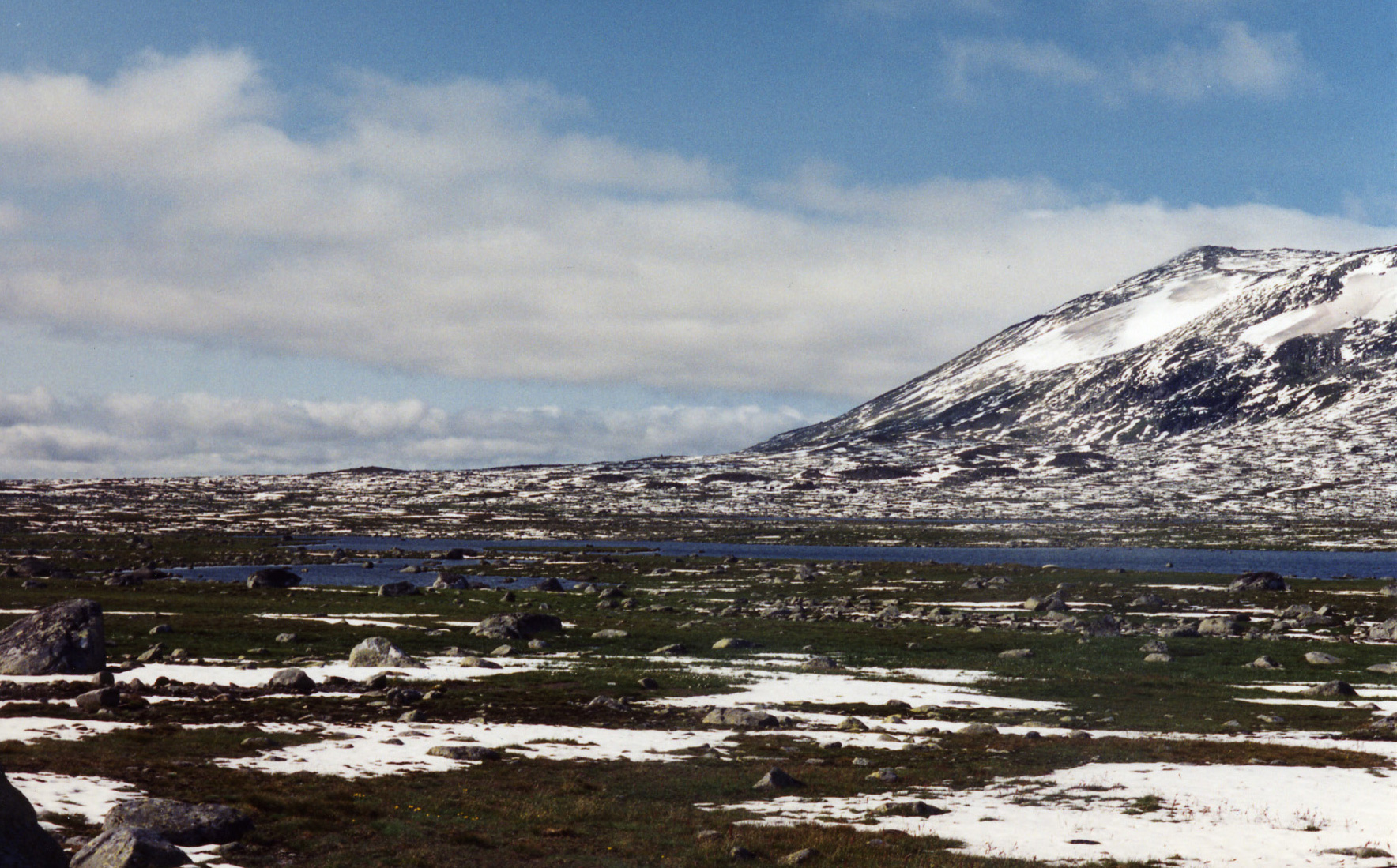 Valdresfjellet in Norway; Photography by Leif Knutsen